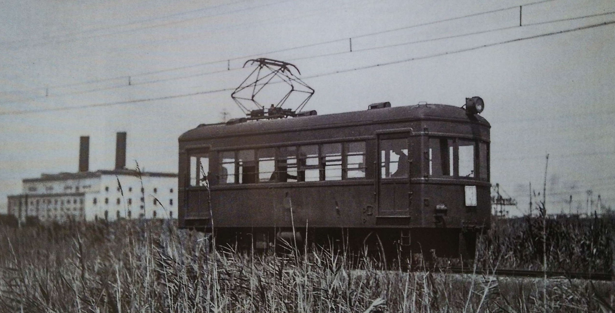 Tsurumi Rinko Railway MoHa 51 electric car (built by Kisha Tokyo in 1932)